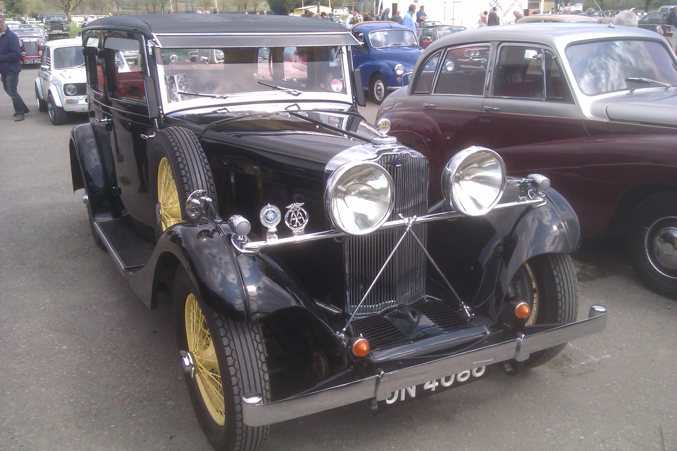 1934 Talbot AX65 6-light saloon info source body by Darracq Motor Engineering Company purchased through Pollards Garages Leigh-on-Sea 29 March 1934 Registration JN4086 Chassis 36580 Engine 1487 1665 cc Gearbox preselector (DVLA) no record Footman James Bristol Classic Car Show 20th April 2013